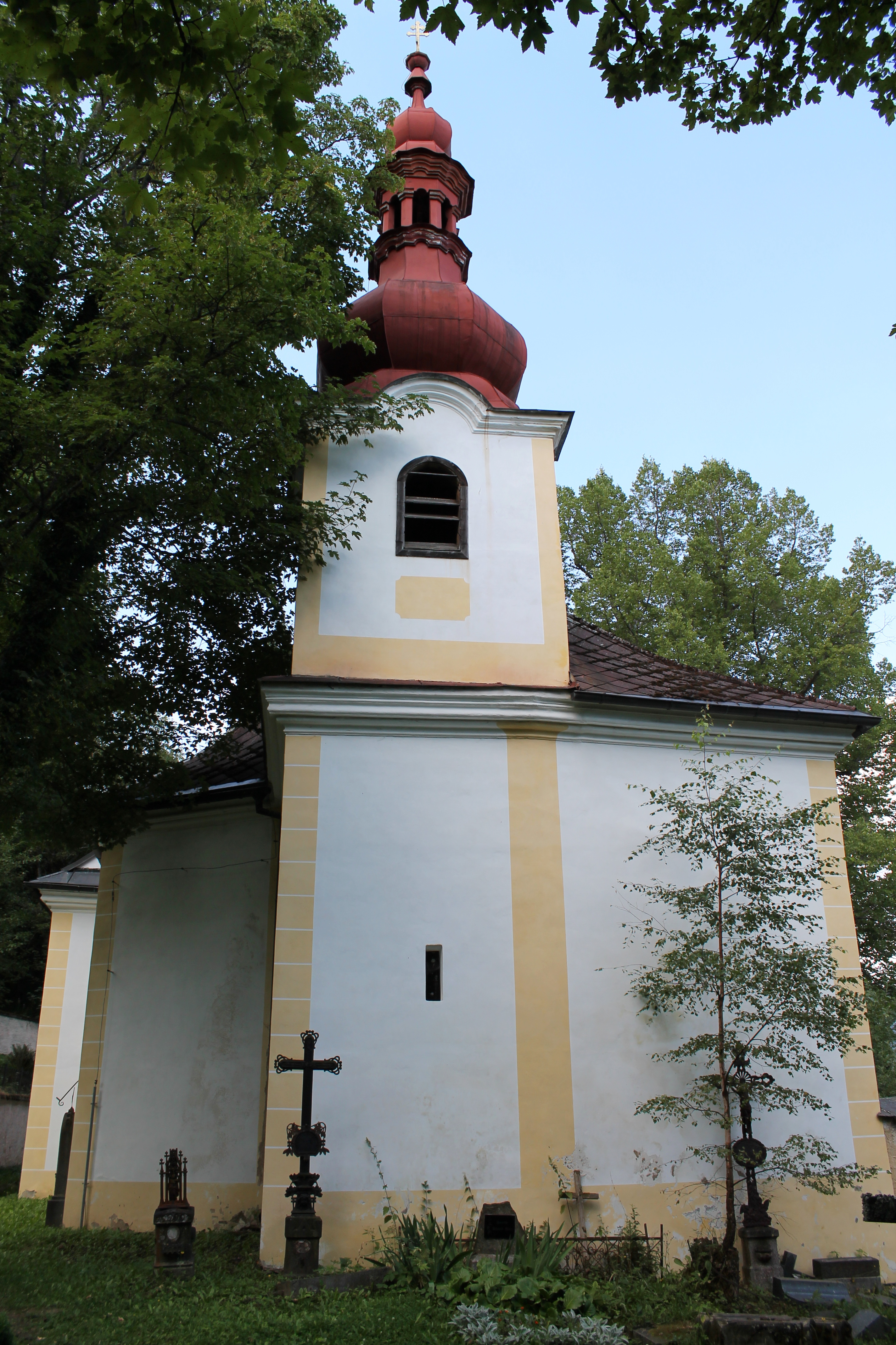 Church of Gunther of Bohemia, Dobrá Voda, Hartmanice, Klatovy District, Czech Republic